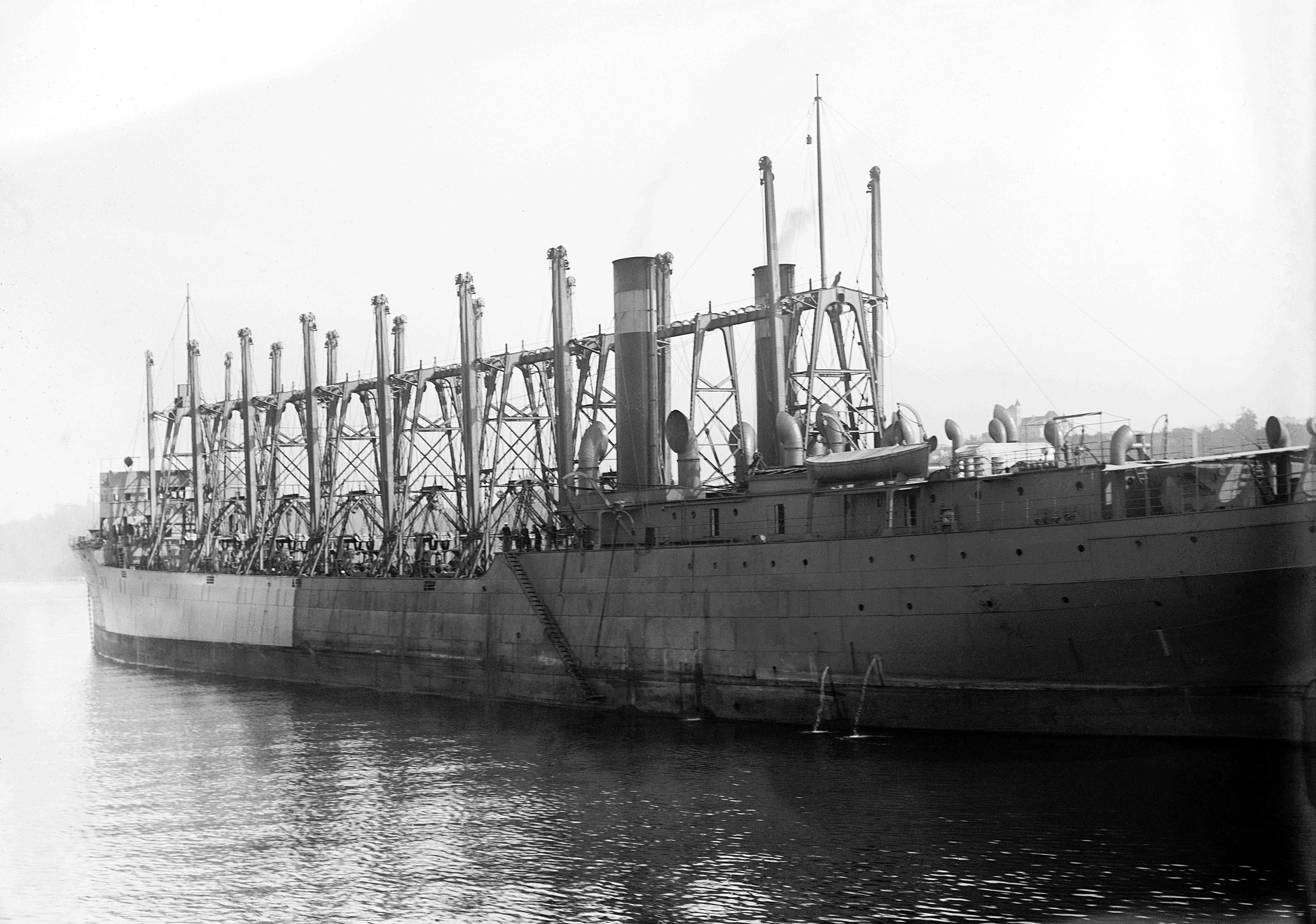 USS Neptune (AC-8), a collier launched 1911, scrapped 1939. From the George Grantham Bain collection at the Library of Congress.